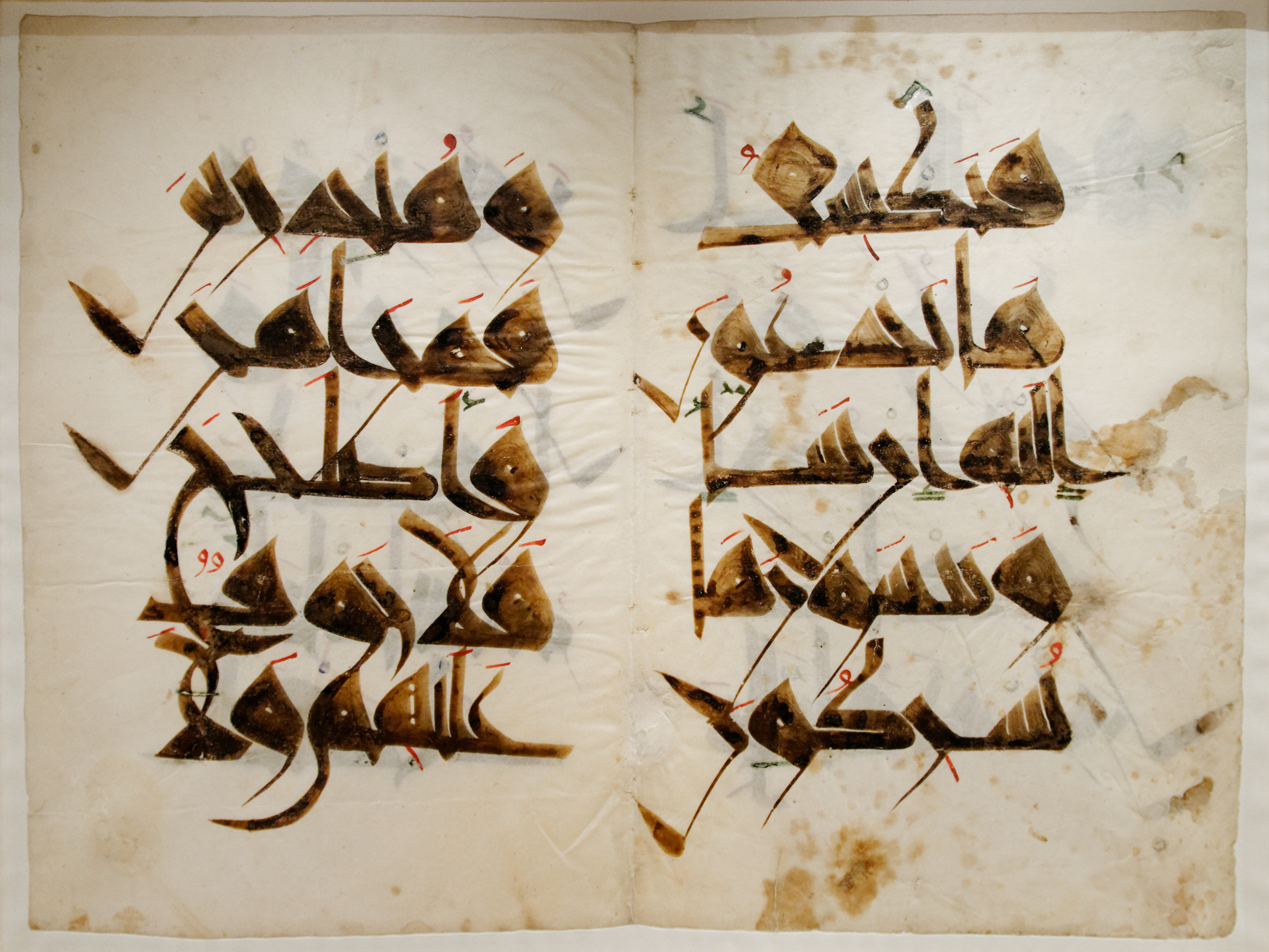 Bifolium from the Mushal al-Hadina, Zirid artwork.